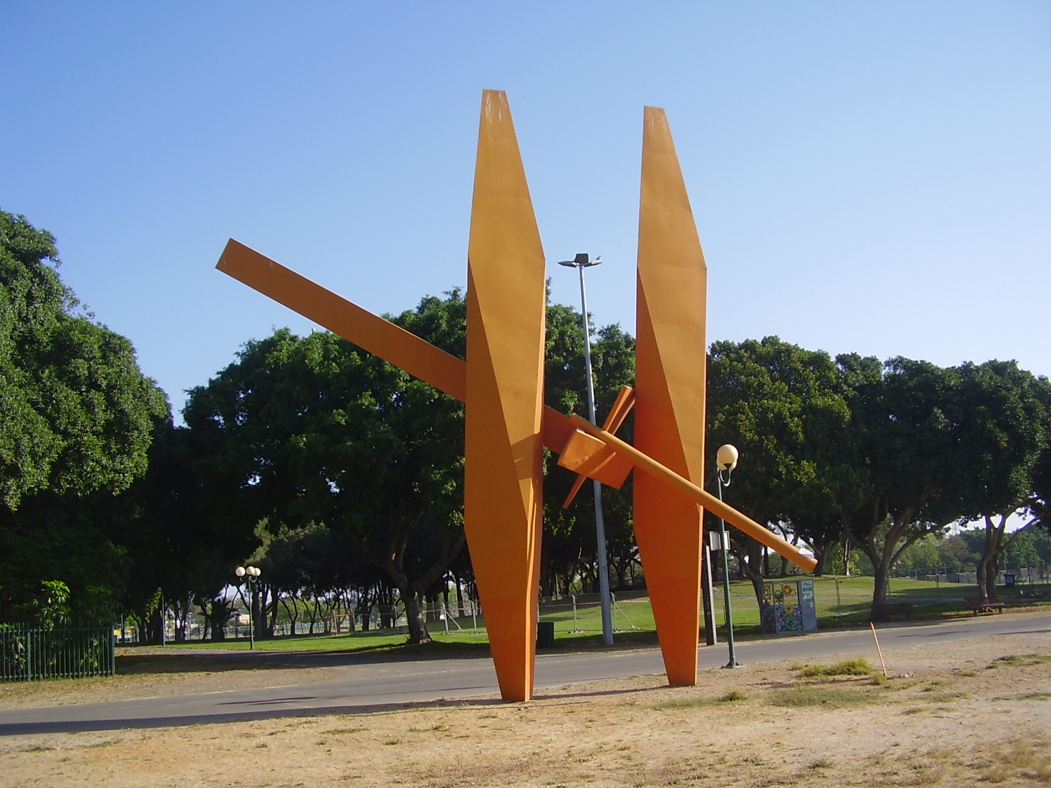 "Yachin and Boaz" by Igael Tumarkin in Tel Aviv